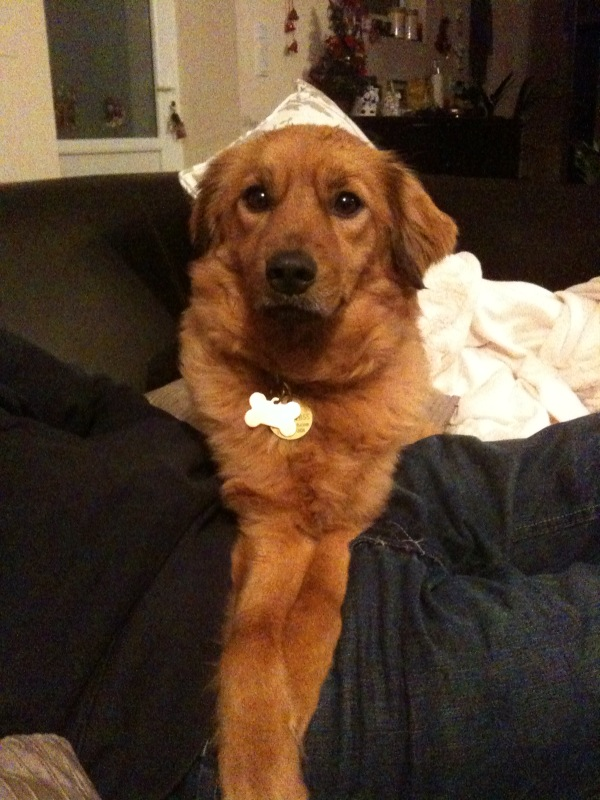 A rescued "Sato" or 'Puerto Rican Found Dog', now in Montelimar, France